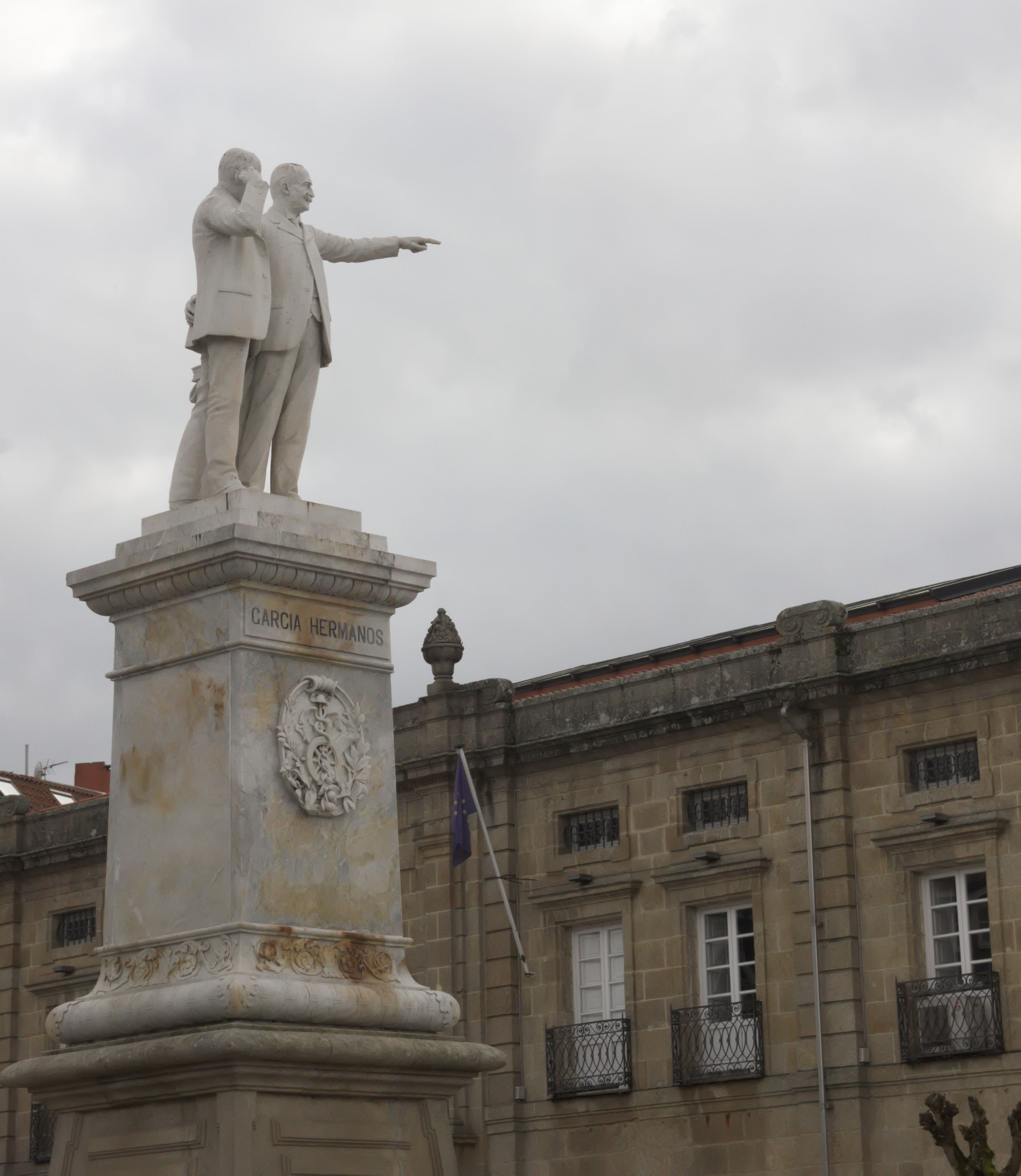 Statue dedicated to the García Naveira brothers in Betanzos, Galicia, Spain.